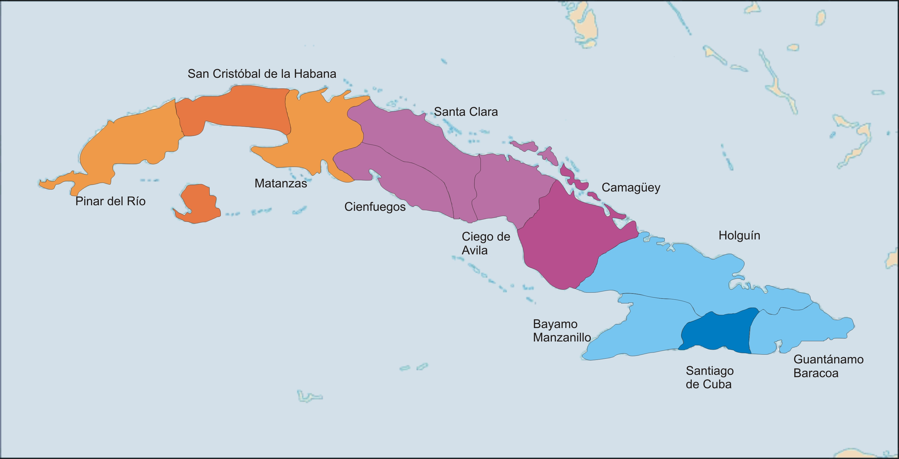 Map of the Cuban Roman Catholic dioceses